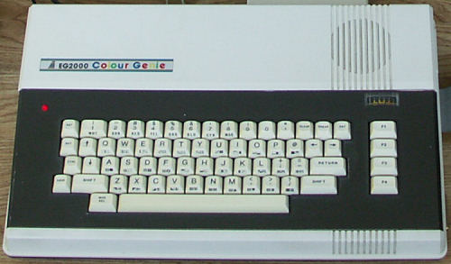 EACA Colour Genie, an early-1980s microcomputer